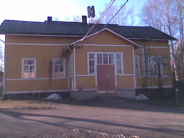 The second school building of Mustola completed in 1903